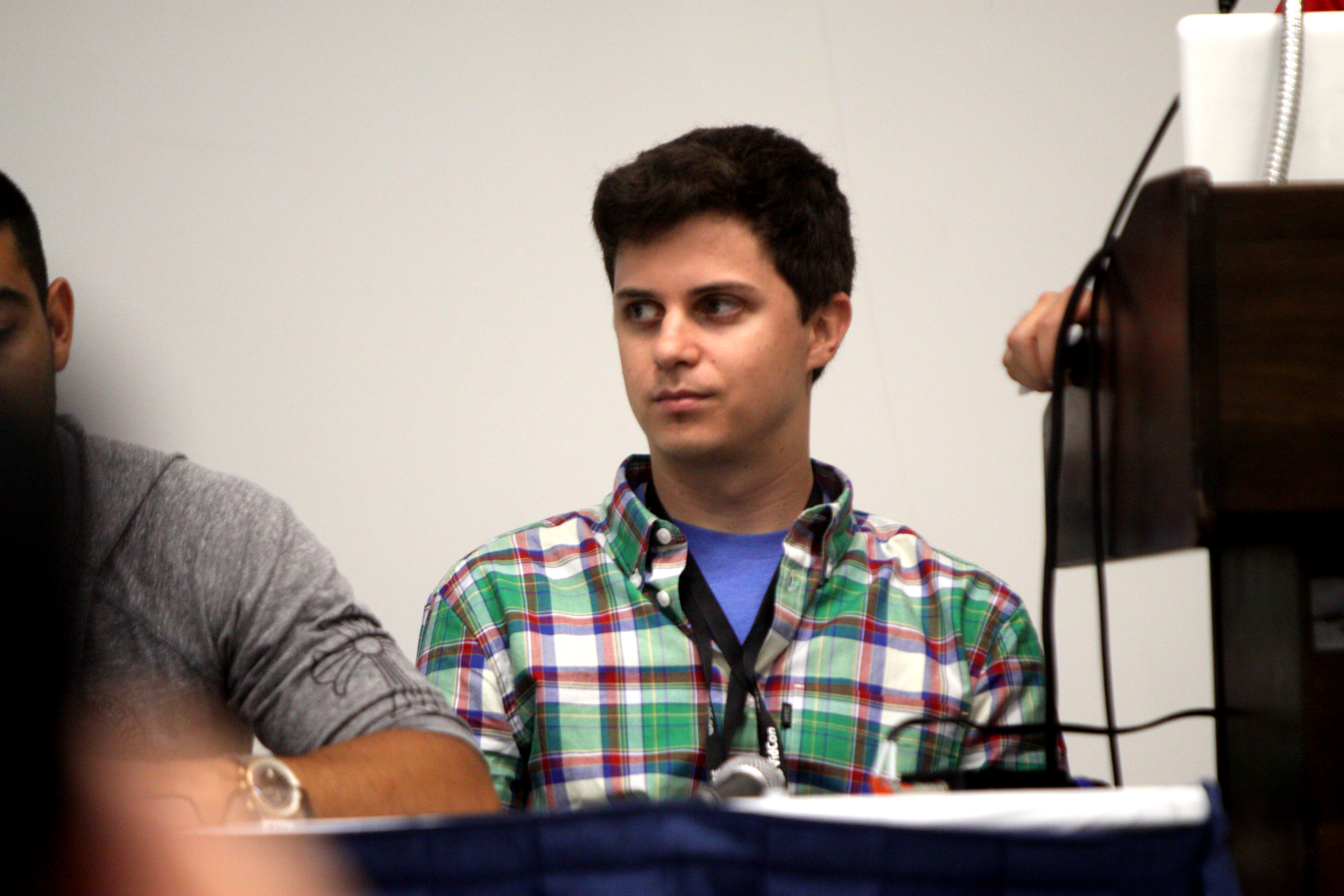 George Watsky speaking at VidCon 2012 at the Anaheim Convention Center in Anaheim, California.